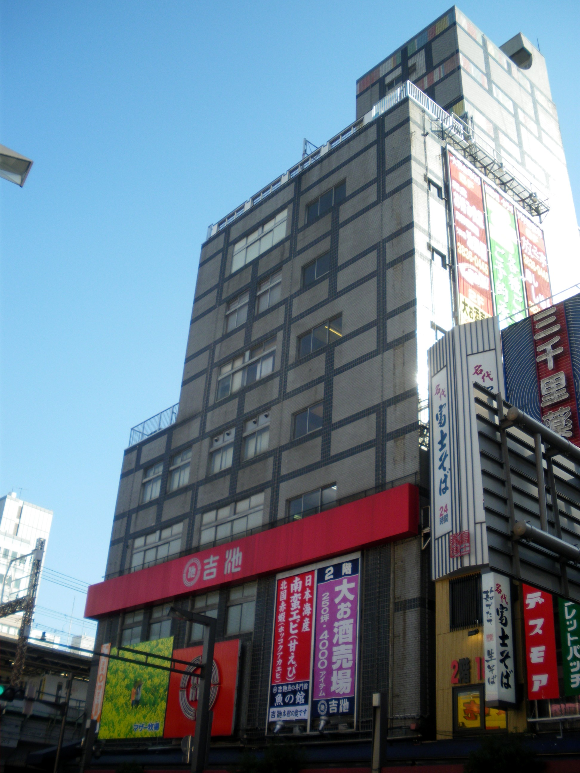 A photo of Yoshiike super market at Okachimachi Station,Taito-ku,Tokyo,Japan.